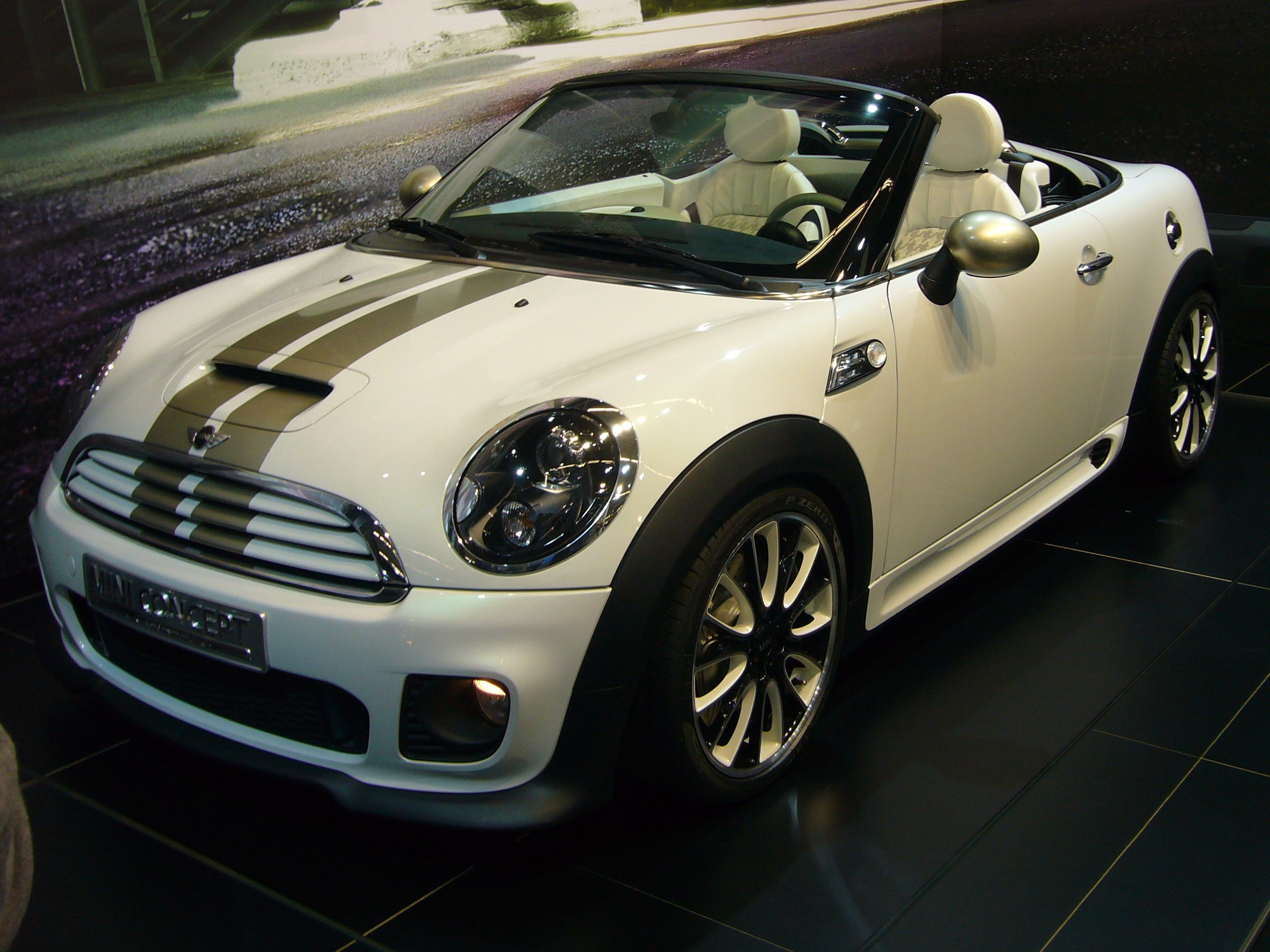 Mini Roadster Concept at AutoRAI Amsterdam 2011